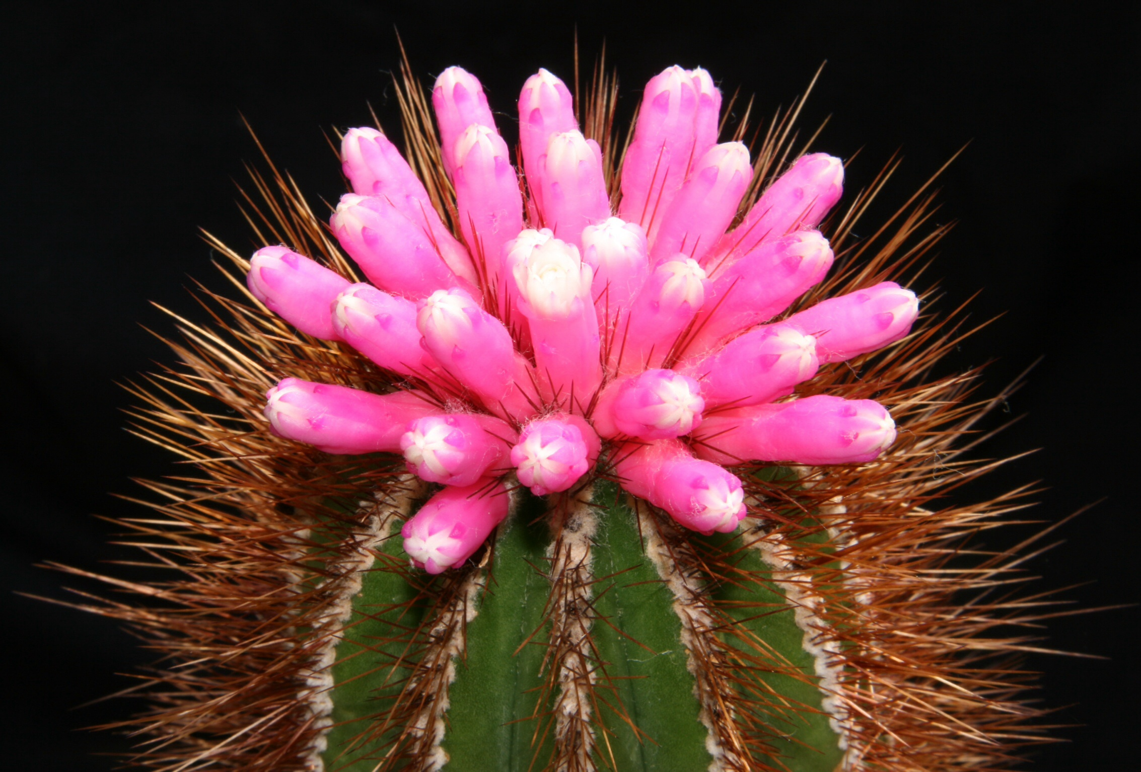 flowering plant from type locality, Chapada Diamantina, Bahia, Brasil